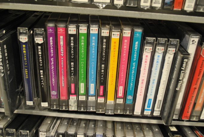 ebisu muscats's albums